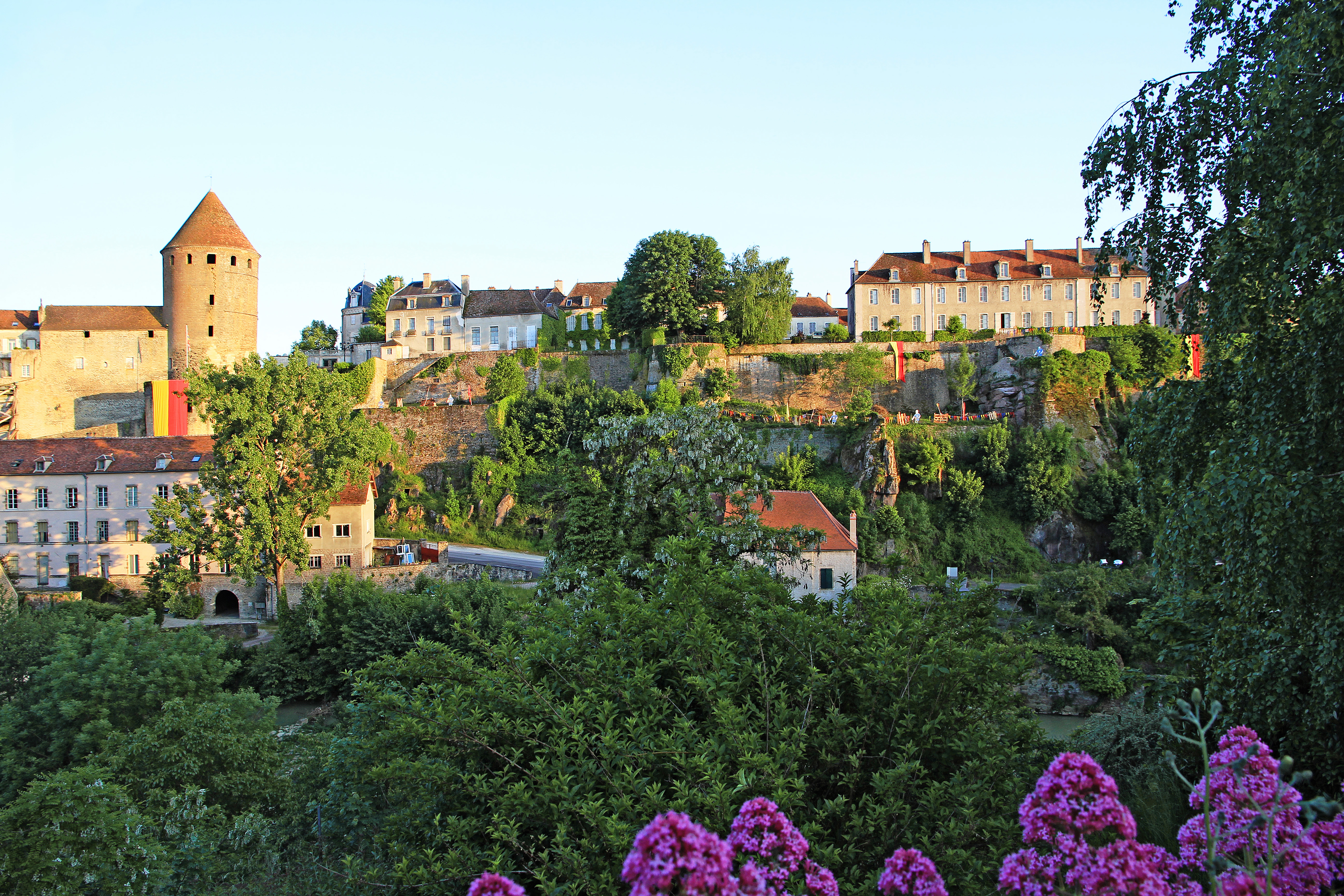 Remparts de Semur-en-Auxois sur la vallée de l'Armançon